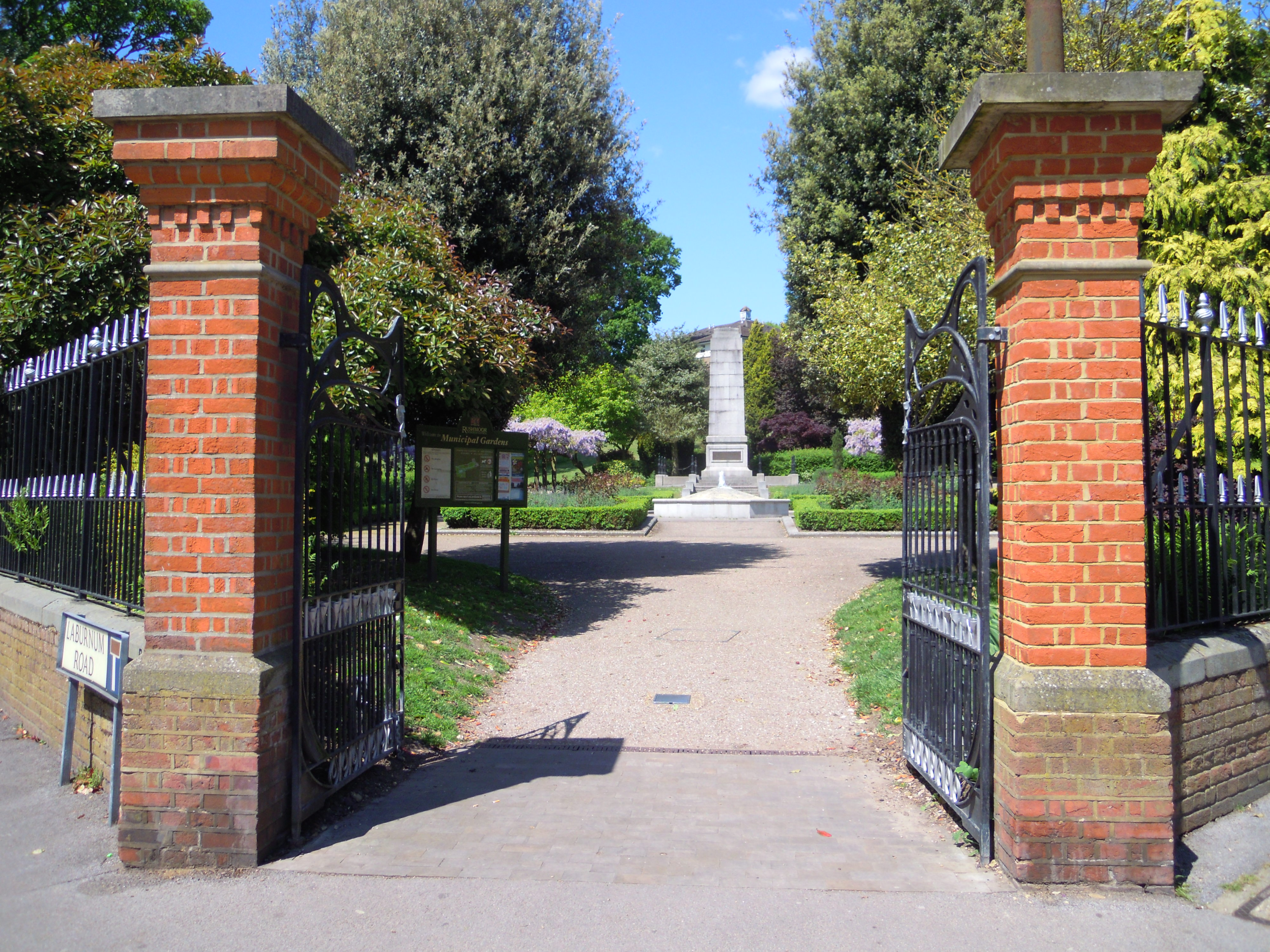 The Edwardian gates to Municipal Gardens in Aldershot